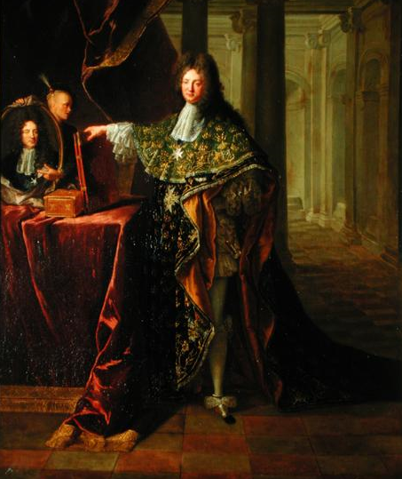 Secrétaire d'Etat en grand costume de chancelier de l'ordre du Saint Esprit, près d'un portrait de Jean-Baptiste Colbert (1665-1746), présenté par un serviteur coiffé à la polonaise